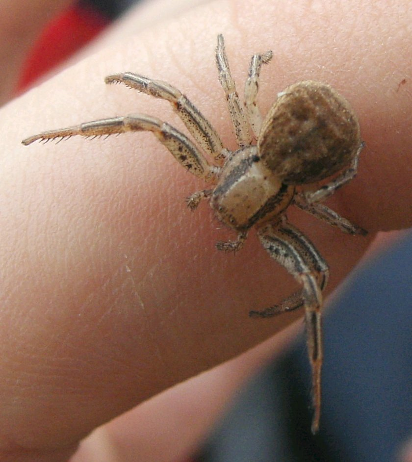 Ozyptila atomaria near Nettersheim, Germany. Found on a meadow adjacent to a forest.